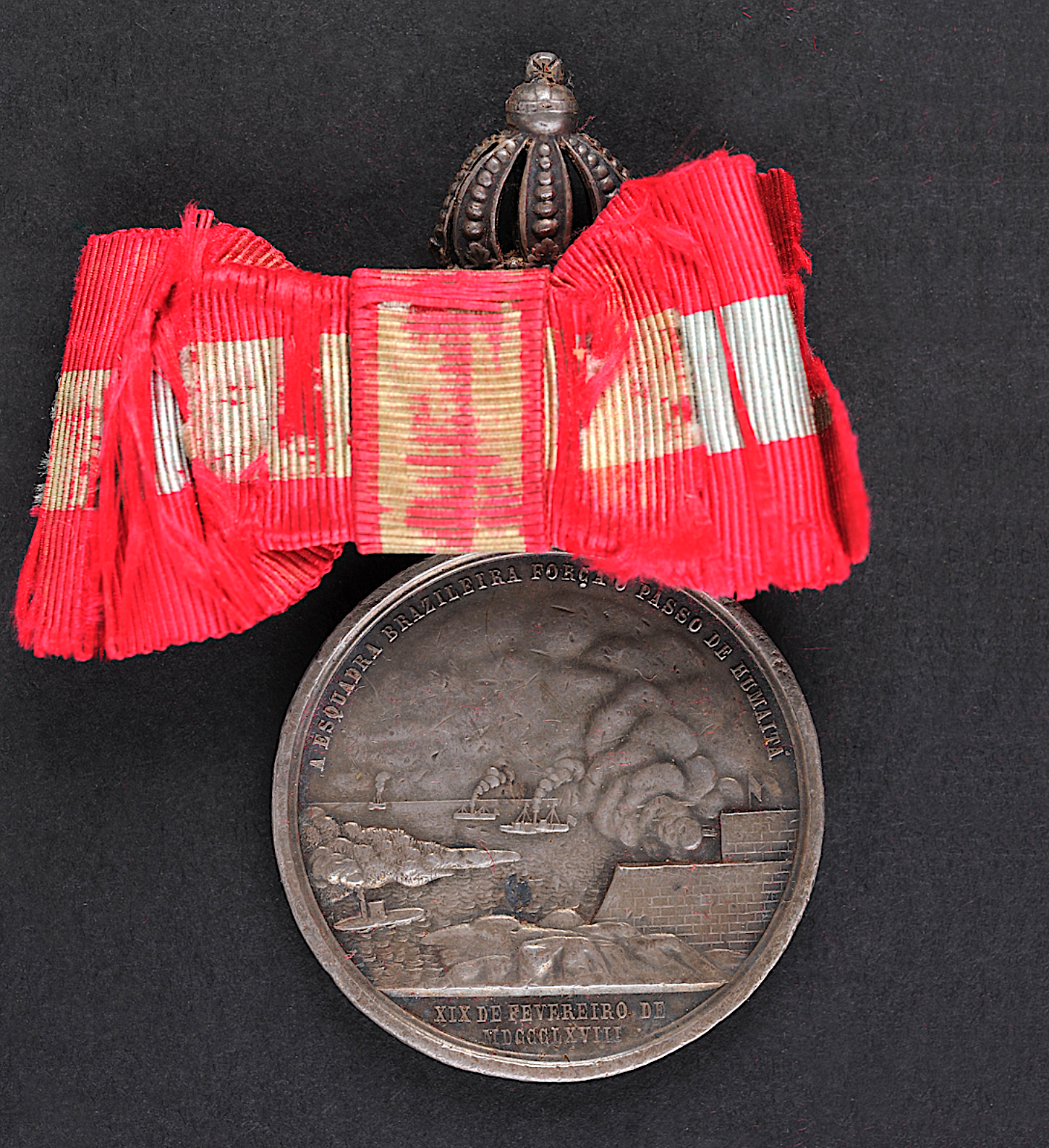 Medal awarded to the officers and crew who achieved the passage of Humaitá